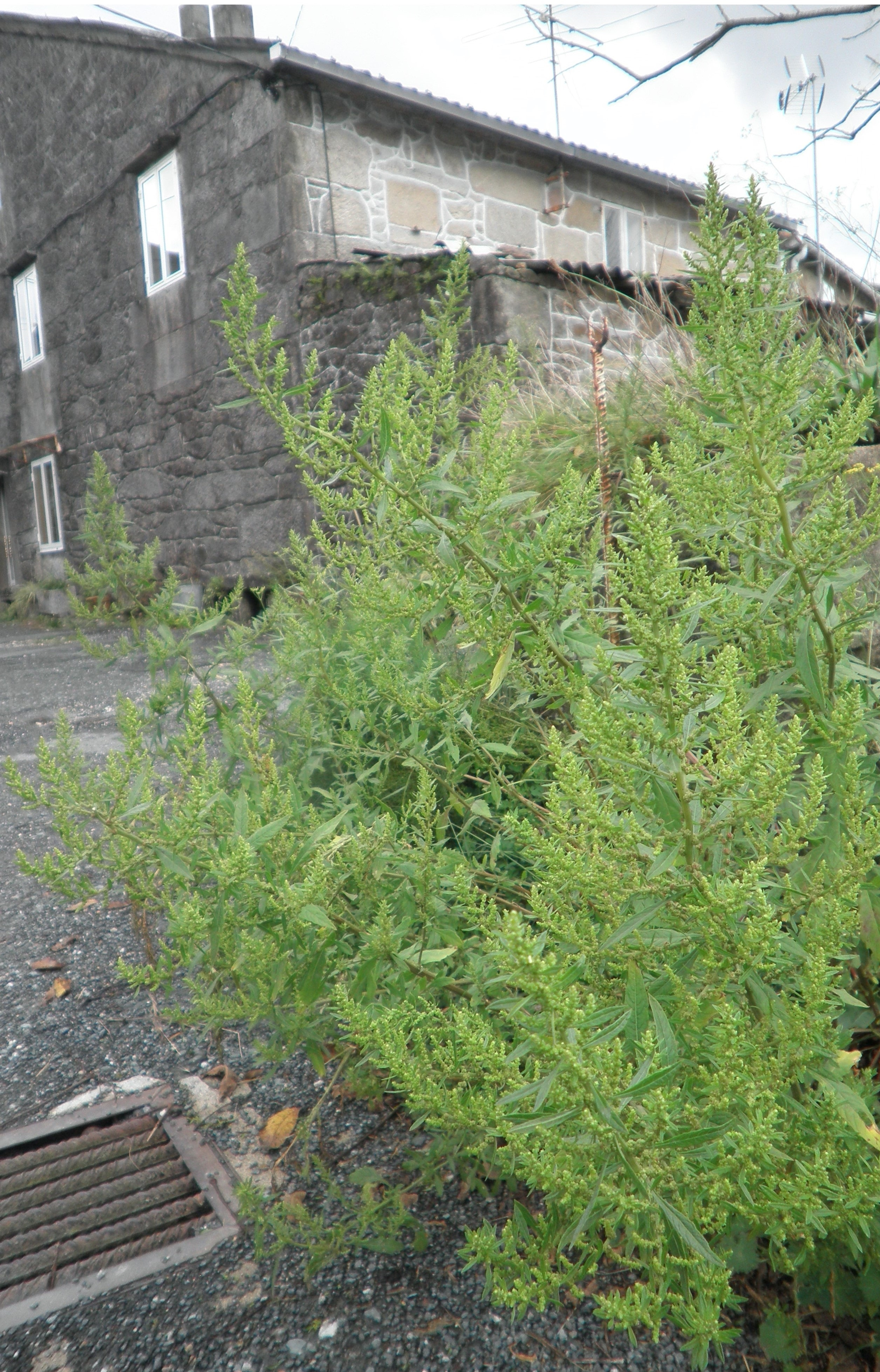 Dysphania ambrosioides